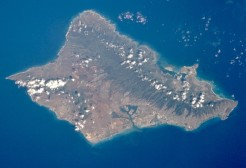 Image of Oahu taken by NASA. This photo was taken on the STS-69 (Space Shuttle) mission in September of 1995.